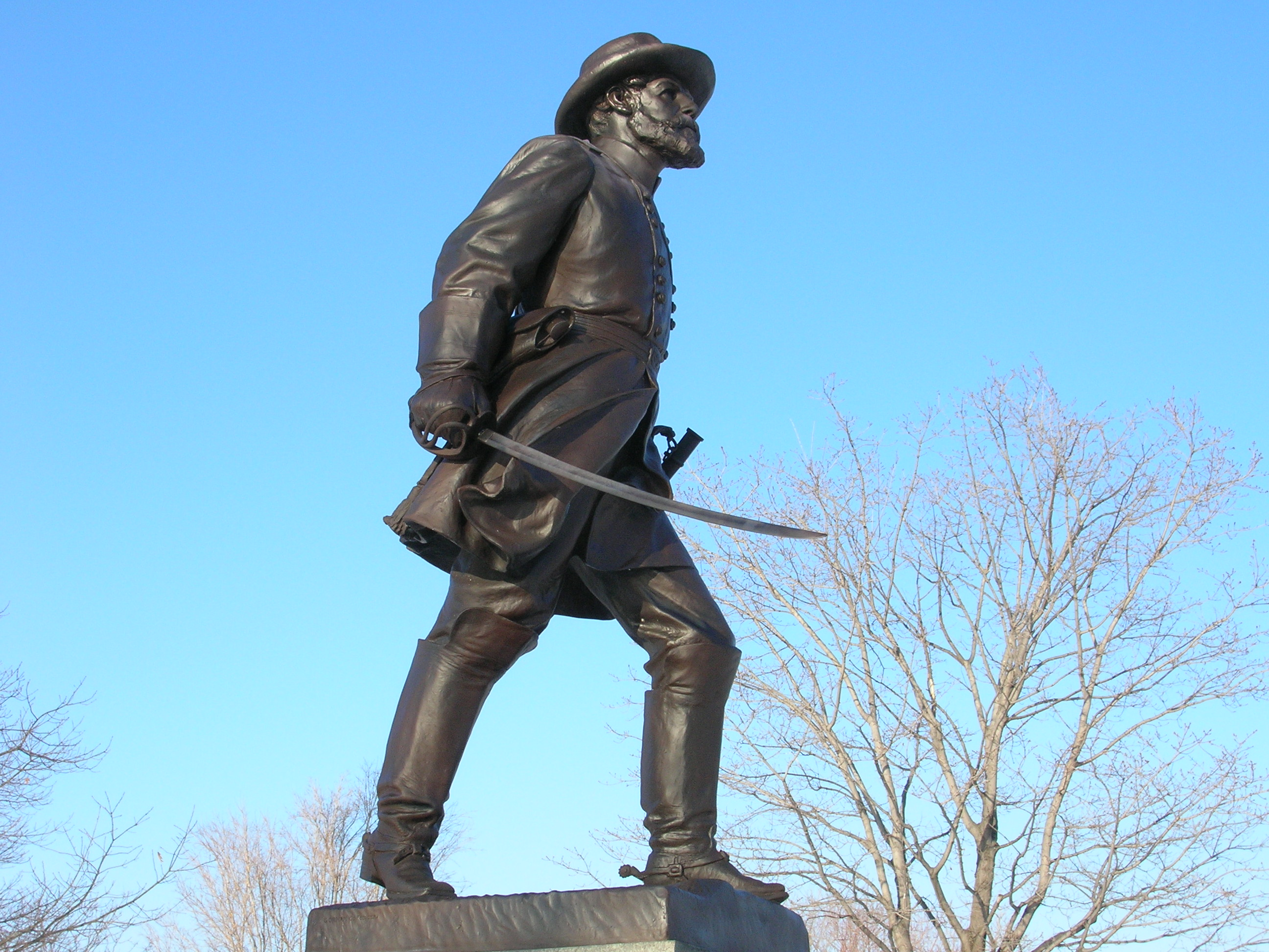 Statue of General William Wells (right side view) at Battery Park in Burlington, Vermont, U.S. (originally sculpted by: J. Otto Schweizer, 1914).